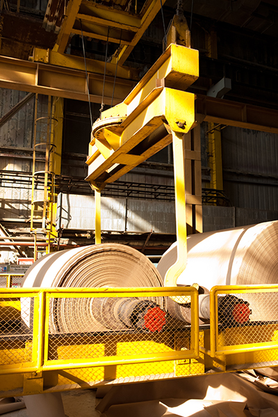 Производство бумаги